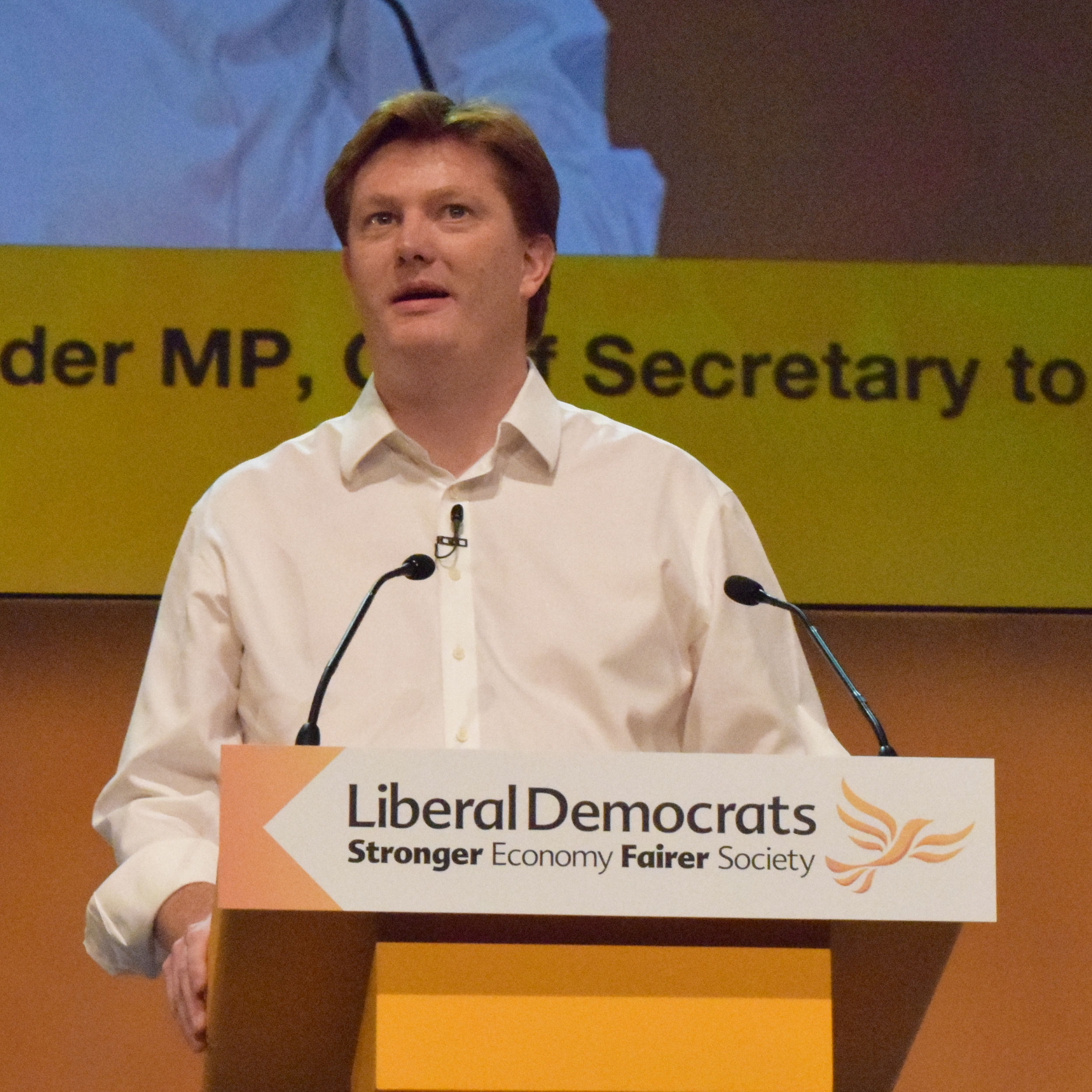 Danny Alexander speaking at a Liberal Democrat conference in the Clyde Auditorium, Glasgow, 2014.